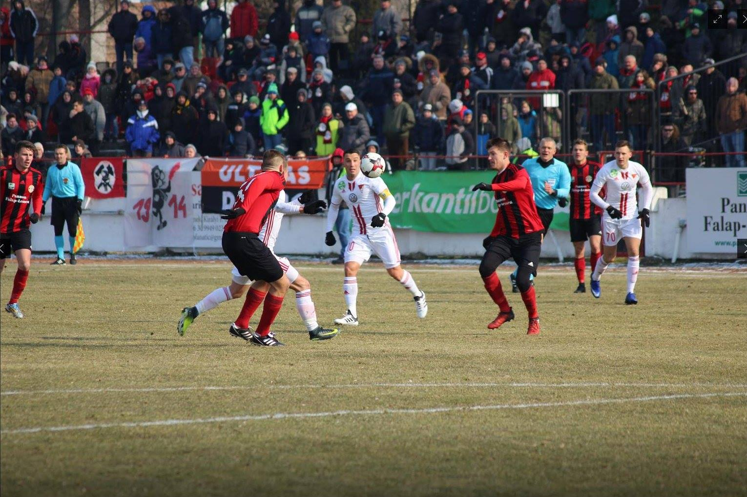 Hungarian Cup's round, Rematch of eight finals on 02.28.2018.